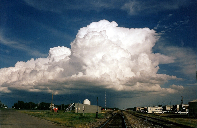 scanned from a 12cm x 17 cm print of a 35mm negative of Langenburg, Saskatchewan Madgelake 18:13, 24 August 2007 (UTC)madgelake